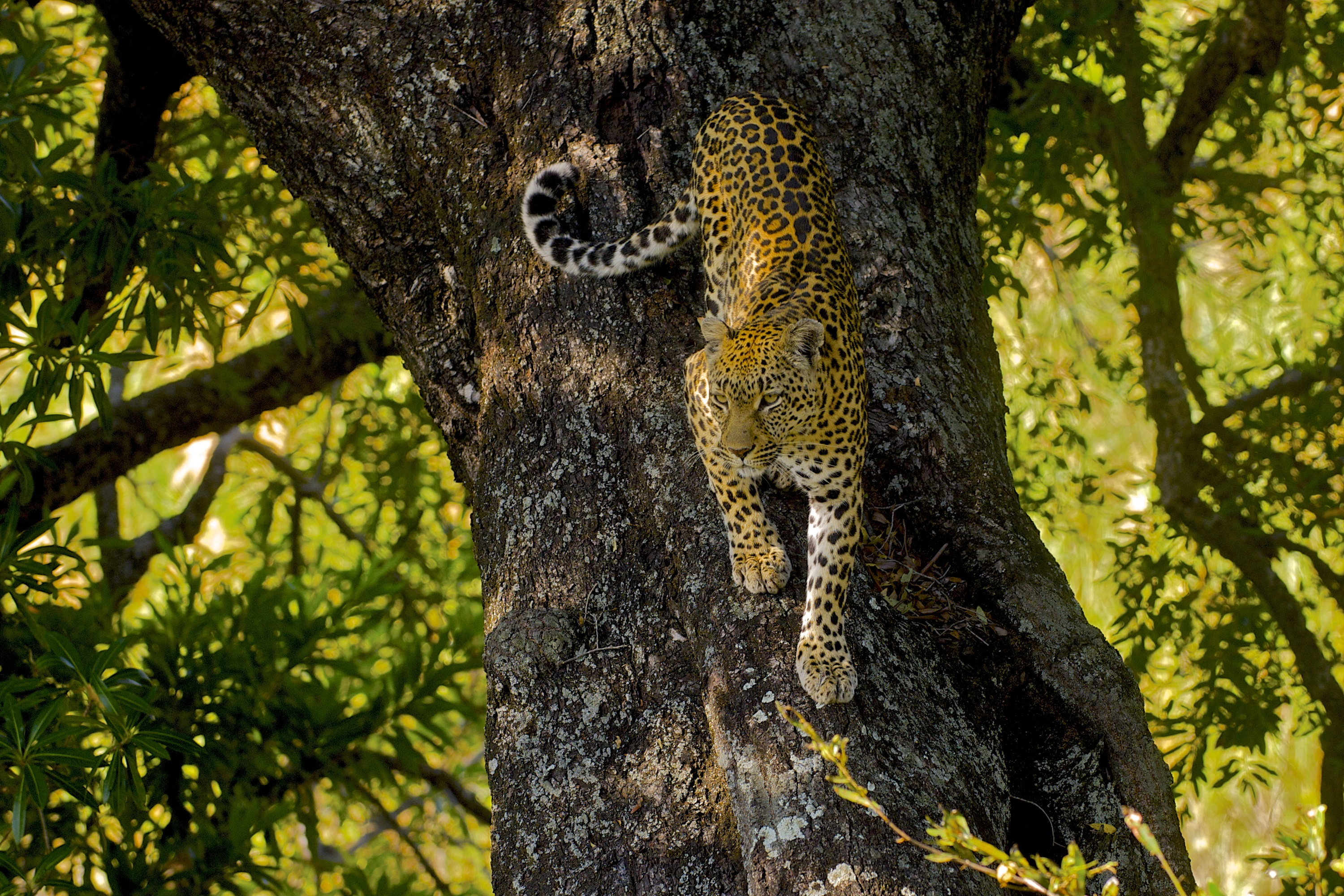 Leopard (Panthera pardus) Female leopard descending from its favourite tree, where it spent the warmest hours of the day. Londolozi, Sabi Sand, South Africa